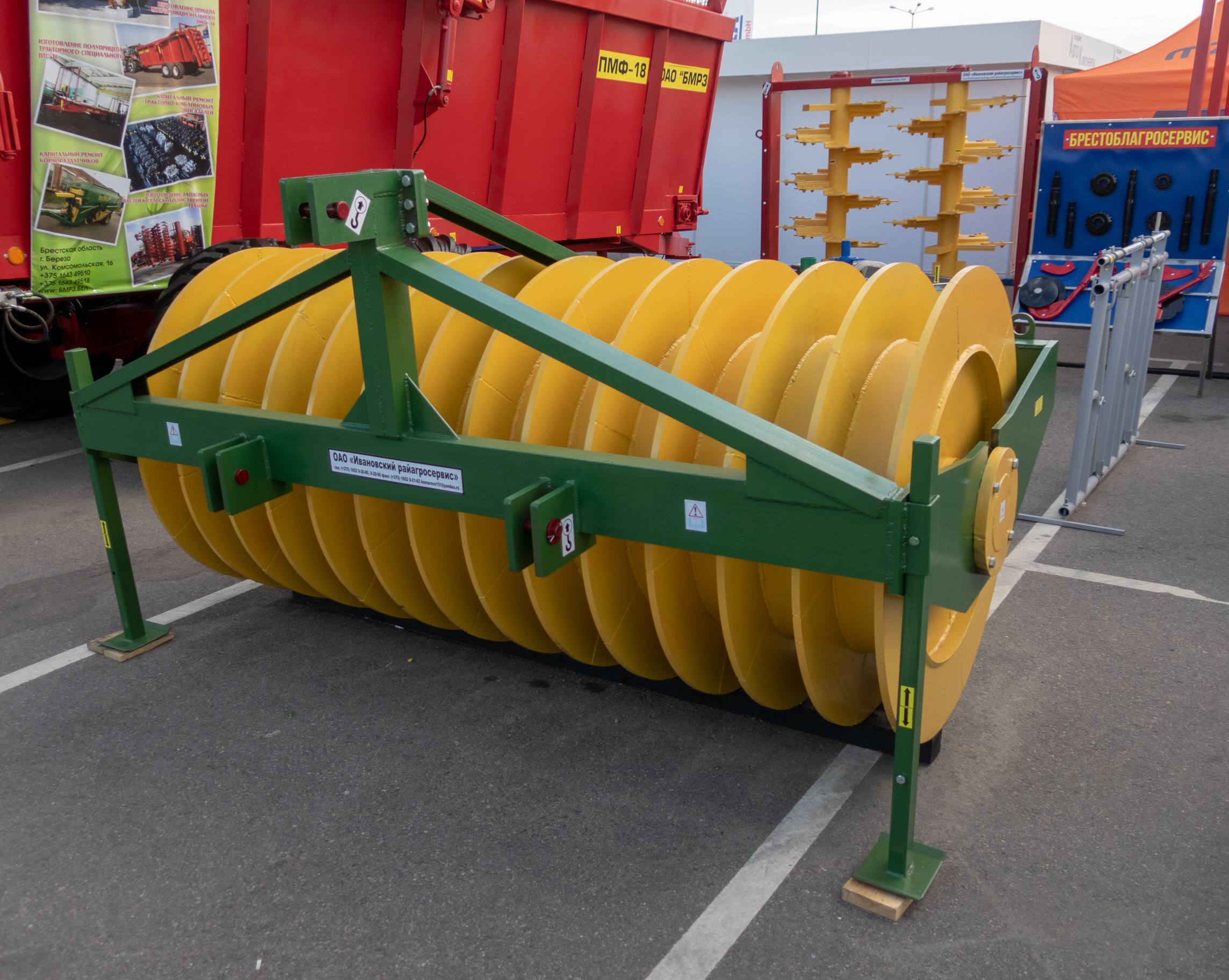 Photo taken at Belagro-2019 exhibition (Minsk district, Belarus)